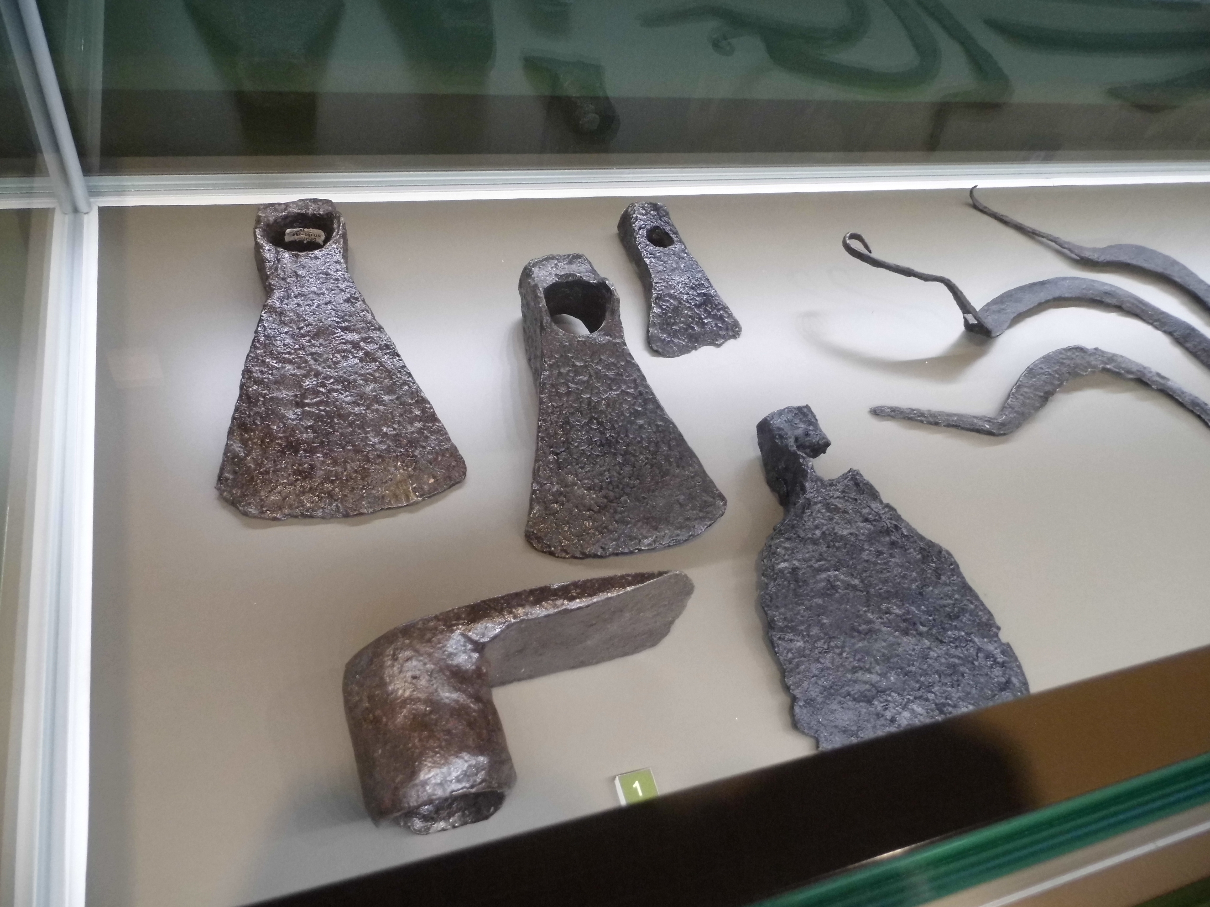 Metallurgy of Volga Bulgaria (14th century)